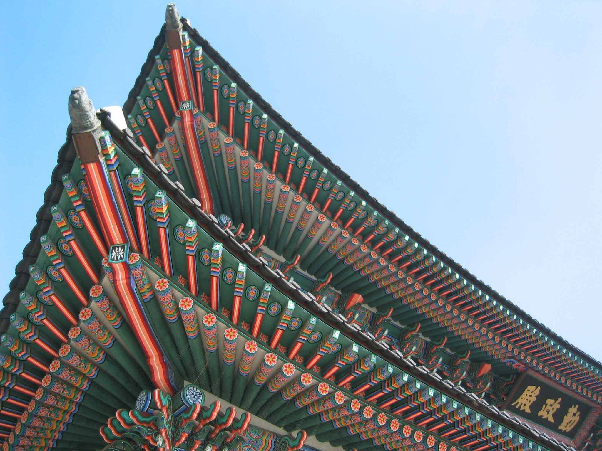 Gyeongbokgung one of the five royal palaces of Joseon Dynasty in Seoul, South Korea.